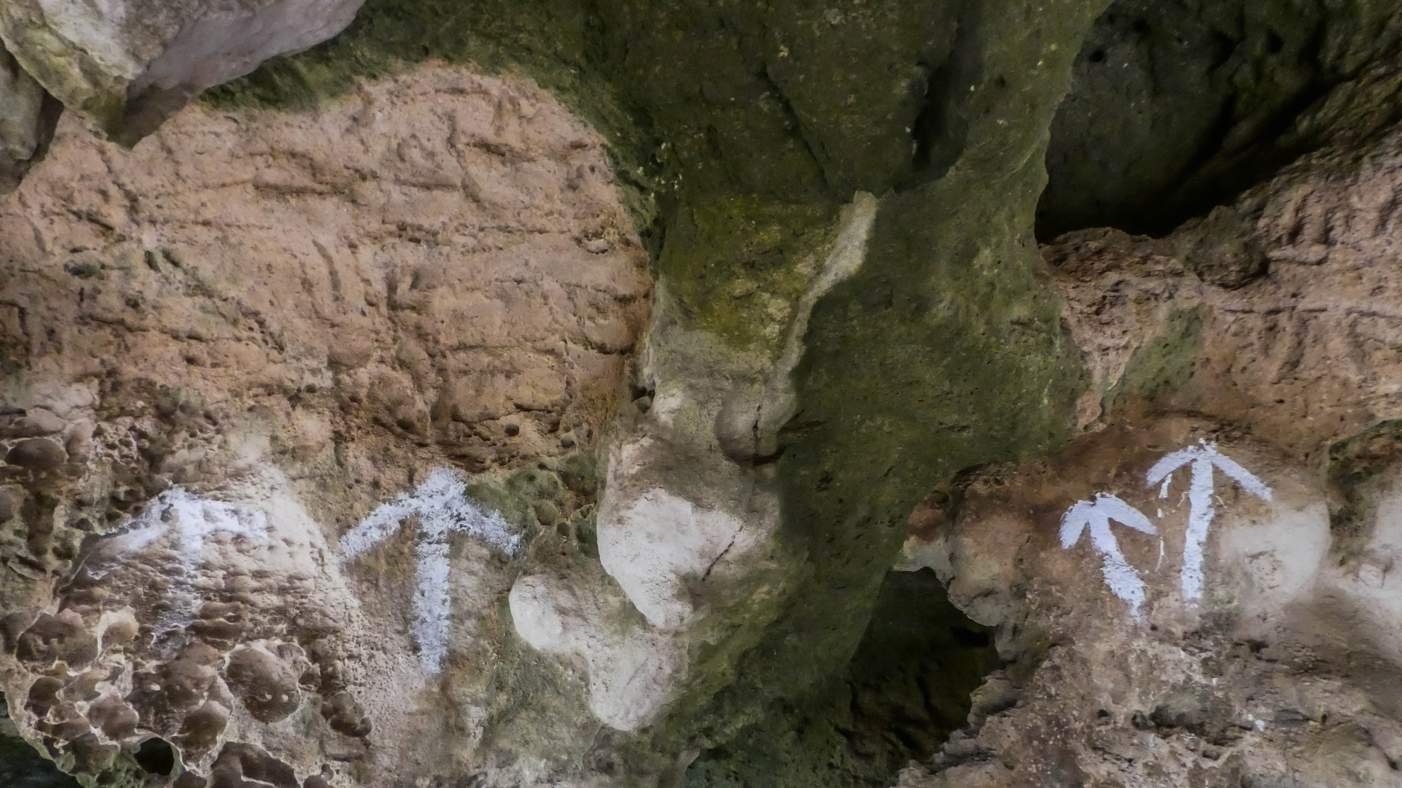 1200 to 1500 year old petroglyphs on the indian trail near the Hato Caves on Curacao